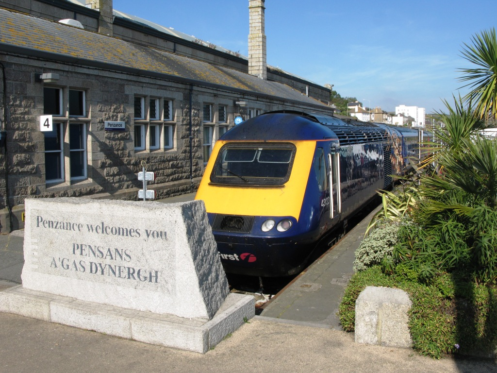 First Great Western's 43133 stands at the end of the line – Penzance station in Cornwall – with a train to London Paddington.